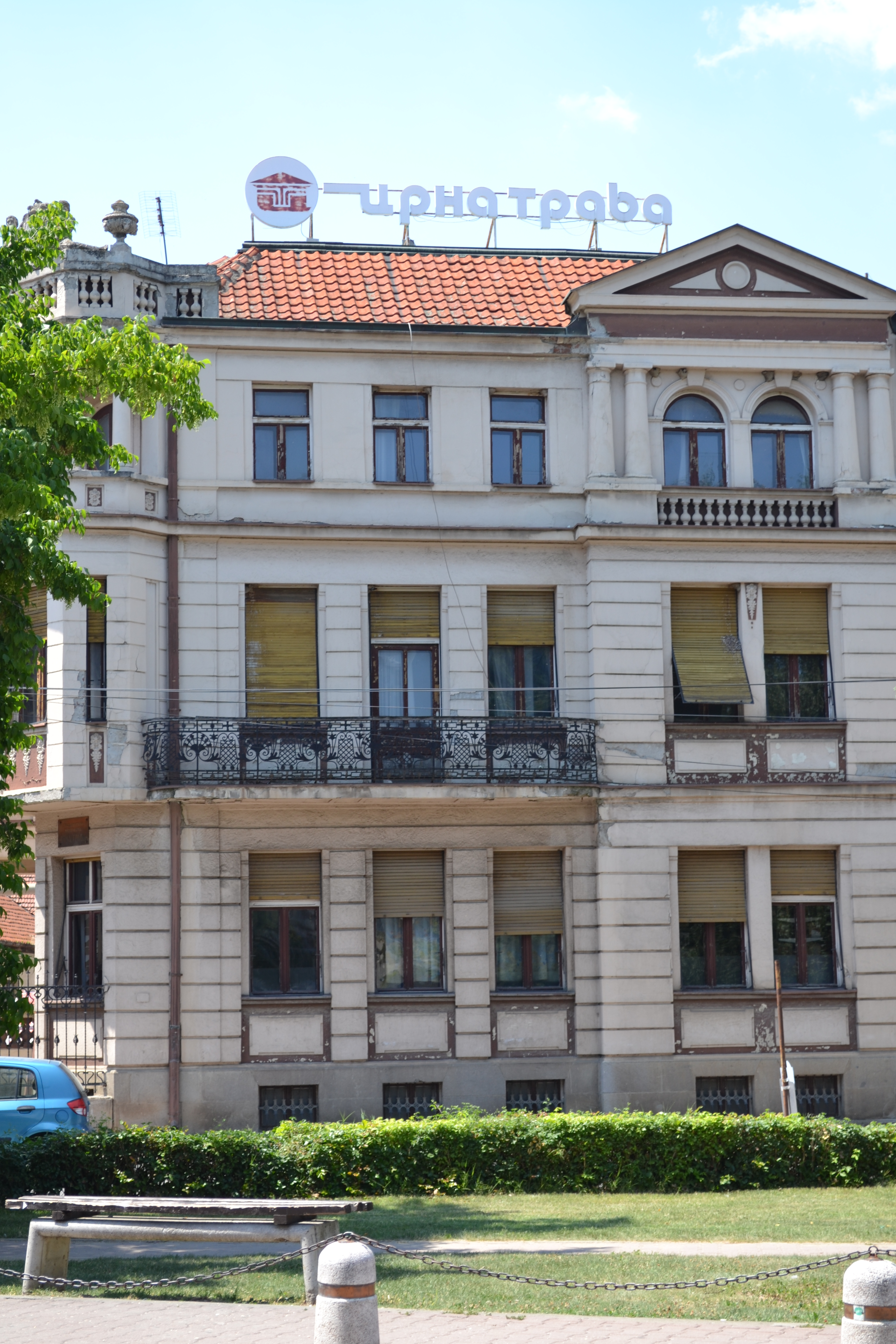 Палата Милана Т. Валчића